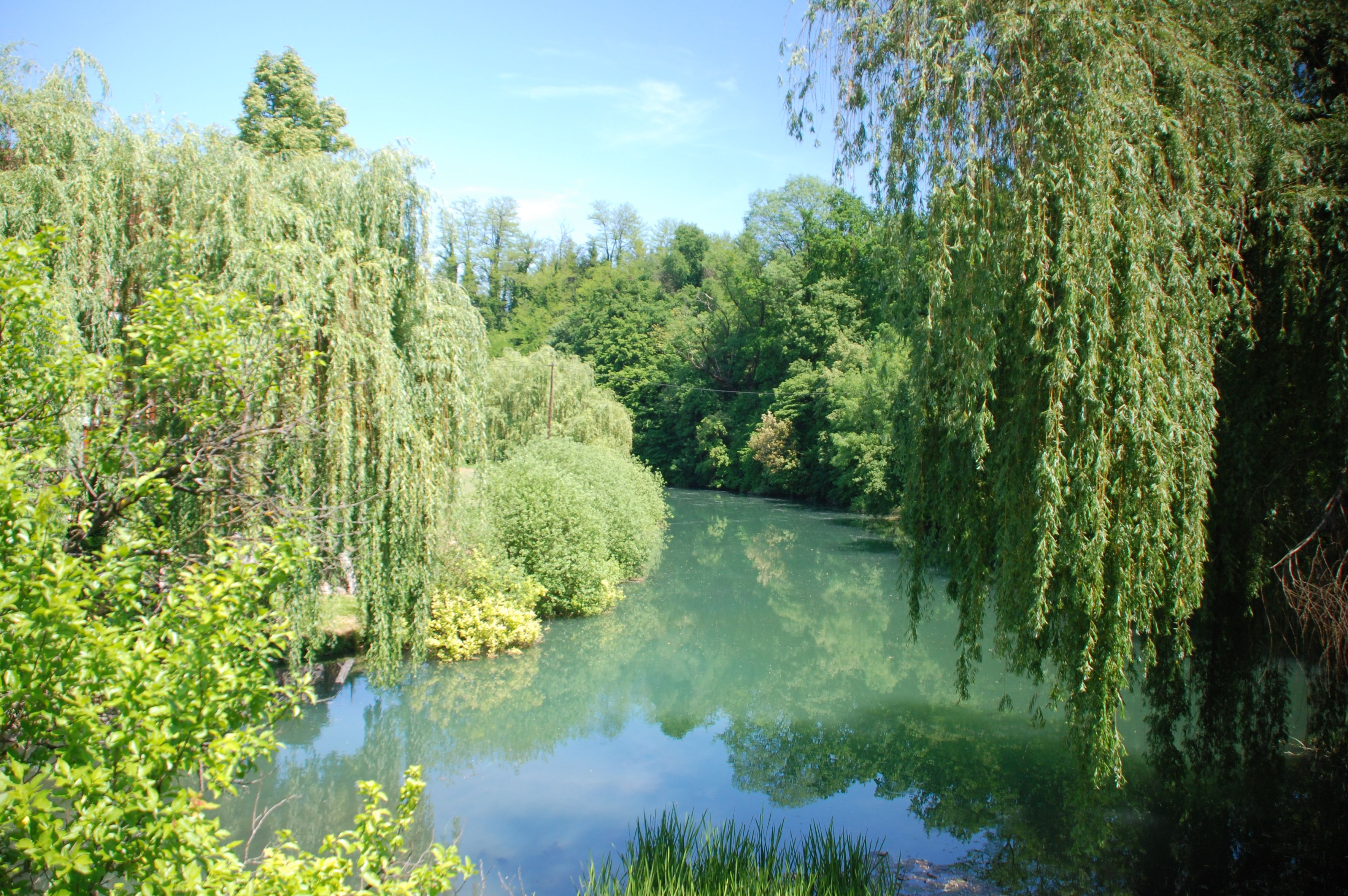 The confluence of Dobličica Creek and the Lahinja River in Črnomelj, White Carniola (Slovenia). Picture taken from the bridge over Dobličica.